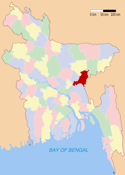 District locator map in red in Bangladesh